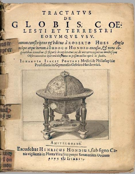 The title page of Robert Hues (1634) Tractatvs de Globis Coelesti et Terrestri eorvmqve vsv: Primum conscriptus & editus à Roberto Hues Anglo semelque atque iteram à Iudoco Hondio excusus, & nunc elegantibus iconibus & figuris locupletatus: ac de novo recognitus multisque observationibus oportunè illustratus ac passim auctus opera ac studio. Iohannis Isacii Pontani Medici & Philosophiæ Professoris in Gymnasio Gelrico Hardervici, Amsterdam: Excudebat Henricus Hondius, sub signo Canis Vigilantis in Platea Vitulina prope Senatorium . From the collection of the Biblioteca Nacional de Portugal